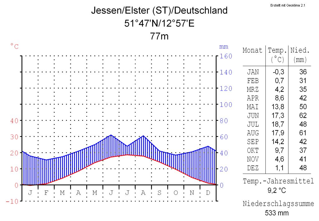 climate chart in the format by Walter and Lieth, metric, °Celsisus and millimeters, made with Geoklima 2.1